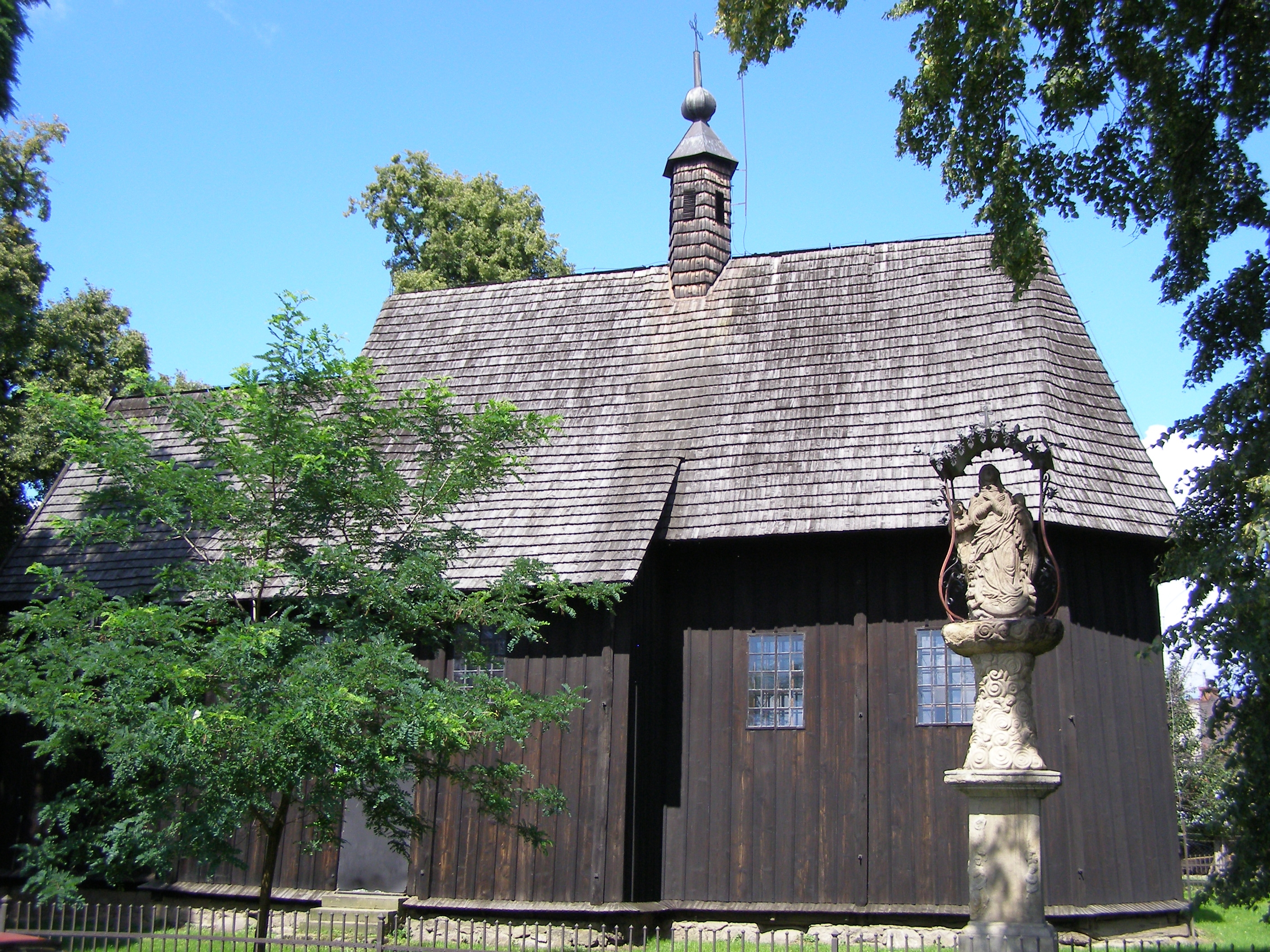 Wojnicz - church of St. Leonard